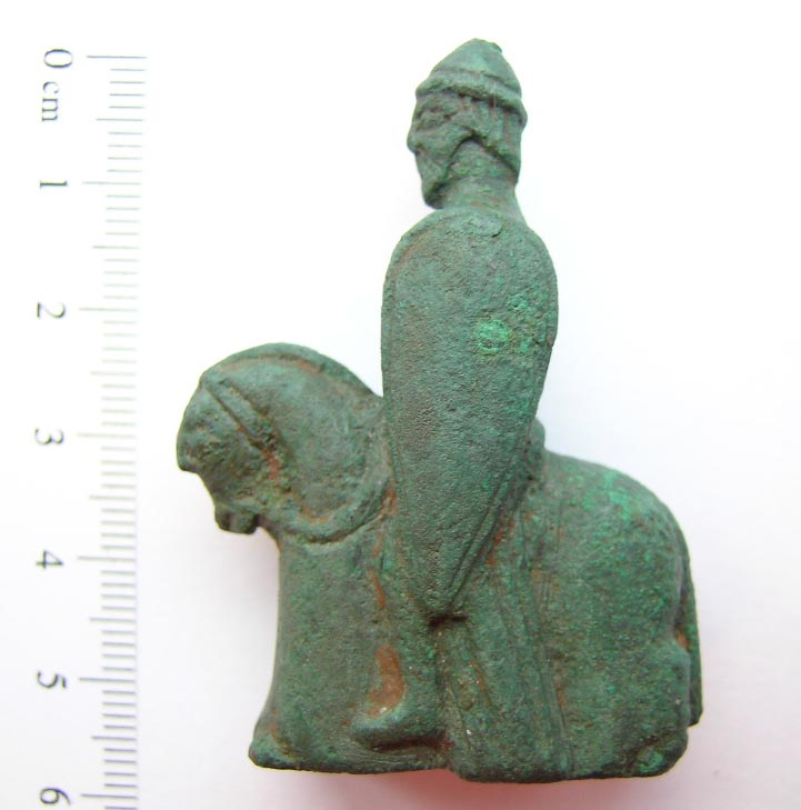 16 Carlton Knight SWYOR-D37EE5